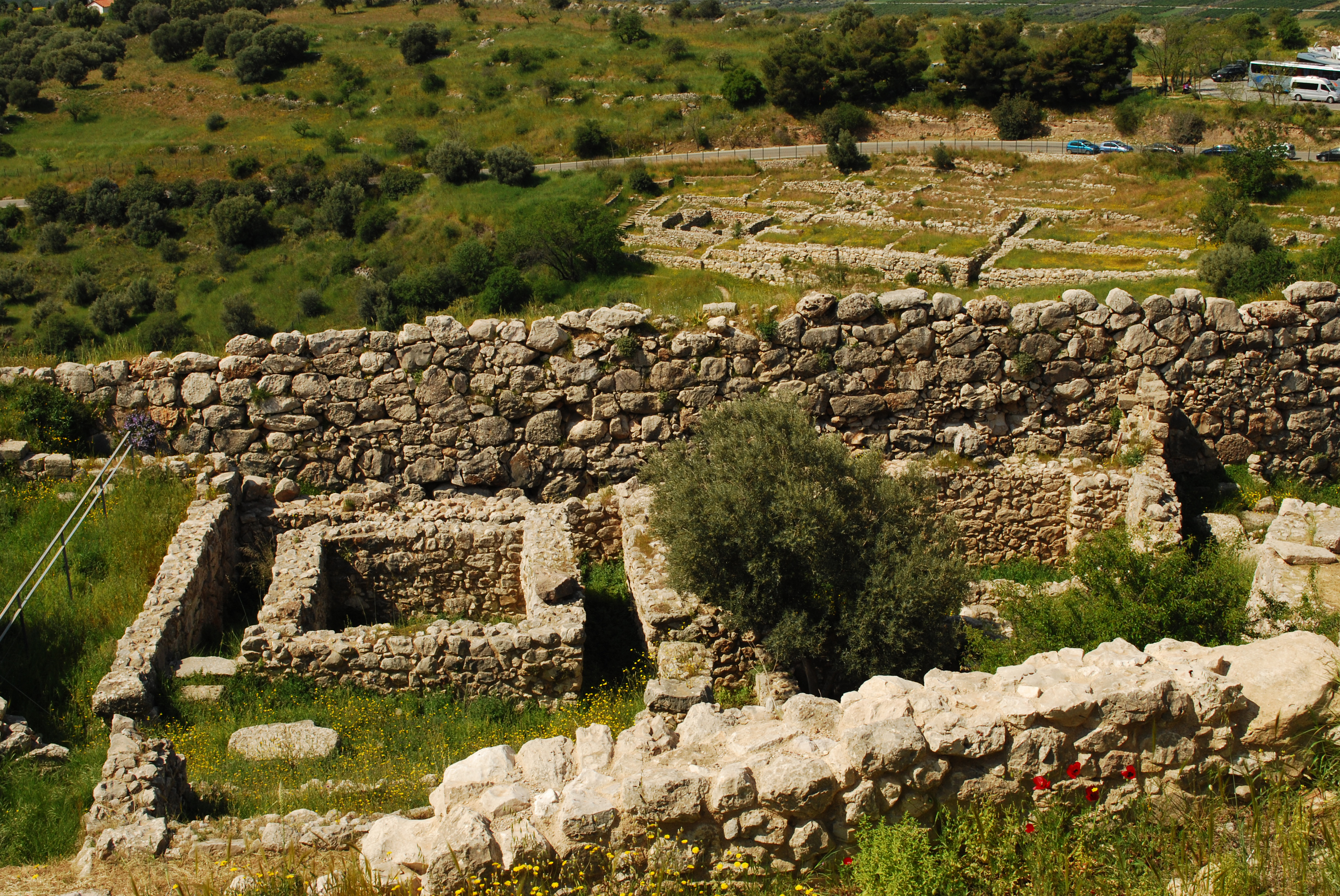 House in Mycenae.